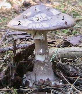 parts of the fruiting body: 1. Cap, 2. remains of an universal veil, 3. partial veil, 4-5. stem, 6. swollen stipe base